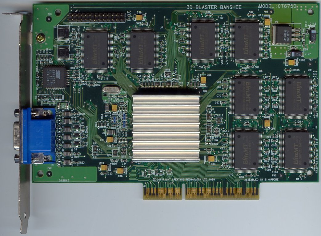 A en:3dfx Voodoo Banshee AGP video card. Scanned by me. This particular board is a Creative 3D Blaster Banshee 16 MB.